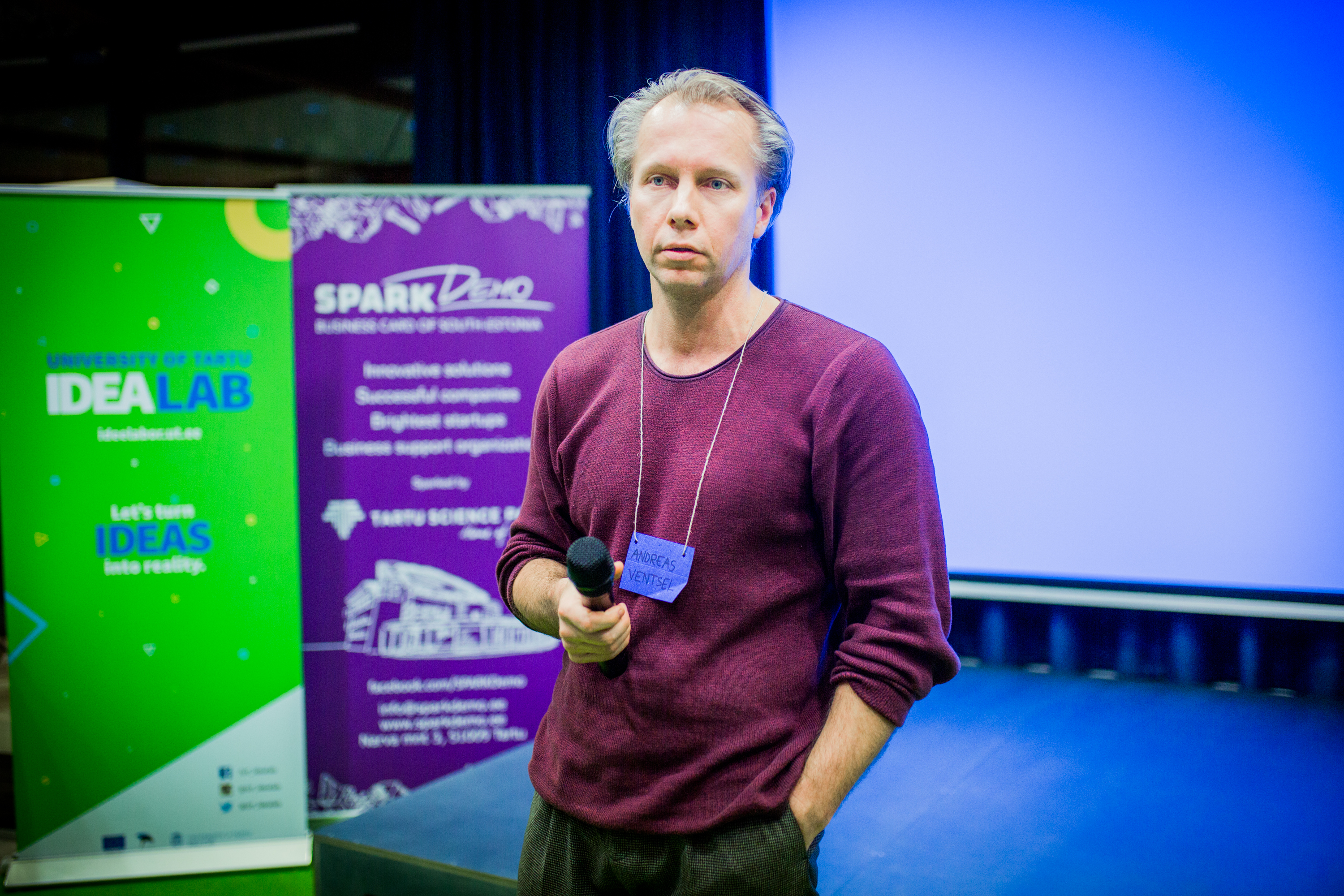 Data as Remedy 24h Post-Truth hackathon in Tartu, Estonia